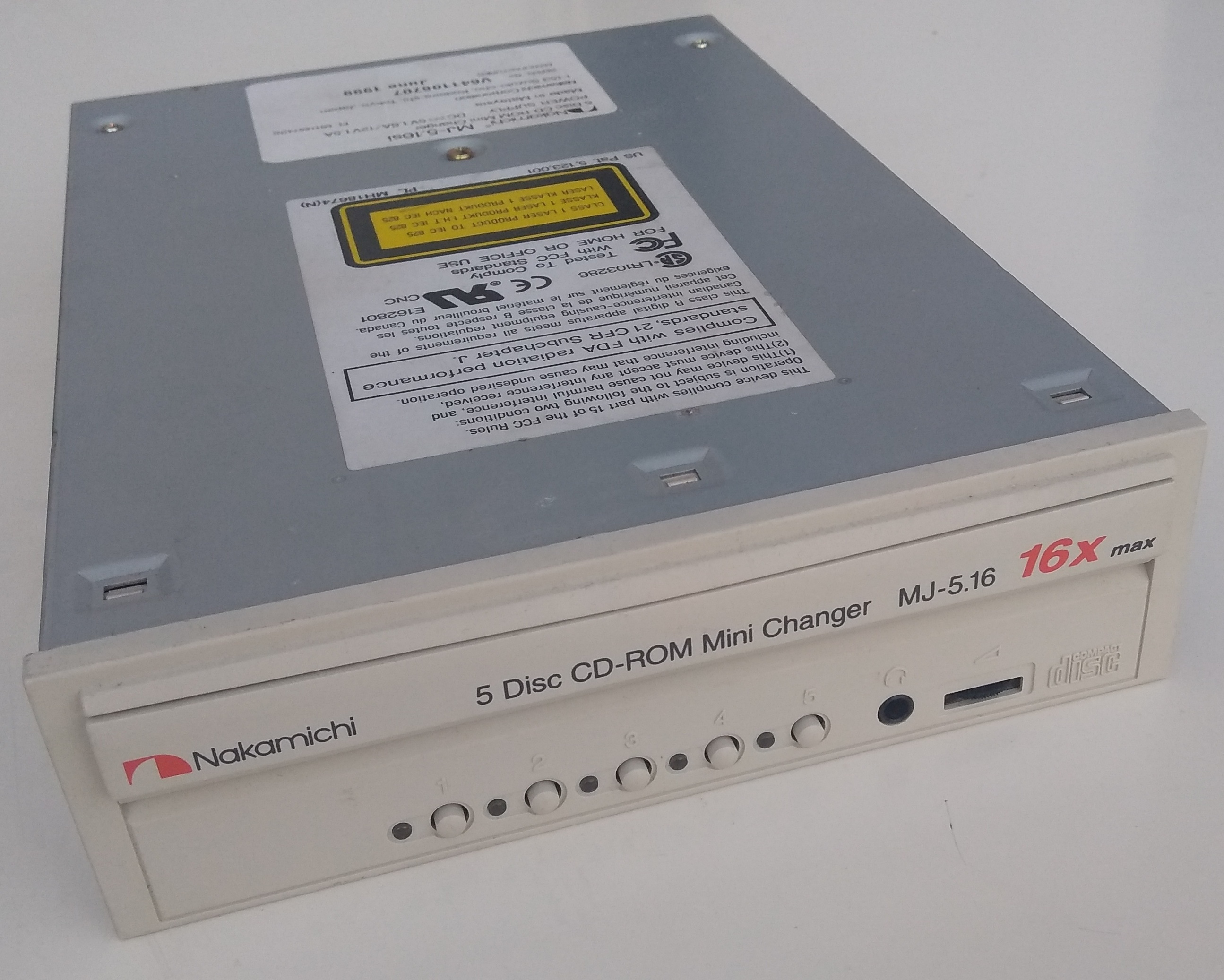 Nakamichi SCSI CD changer for 5 CDs